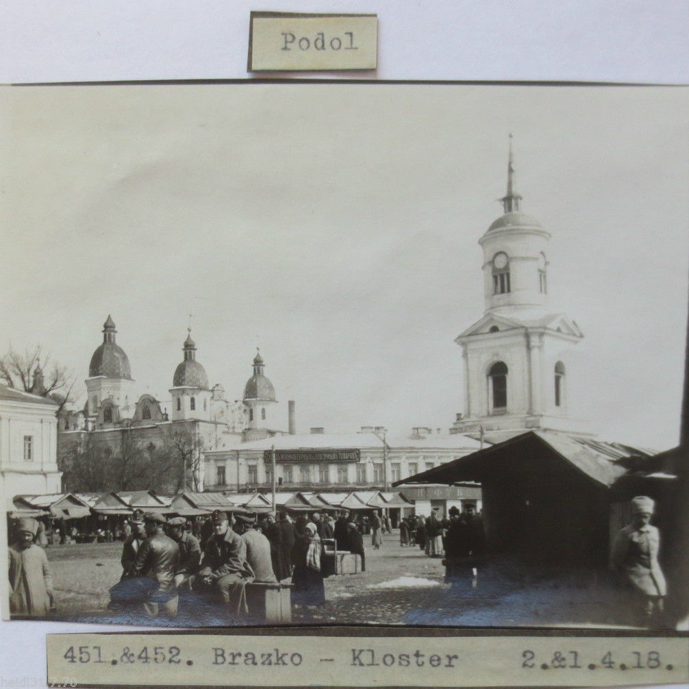 Photo of Ukraine from an album of an unknown German soldier taken during World War I.